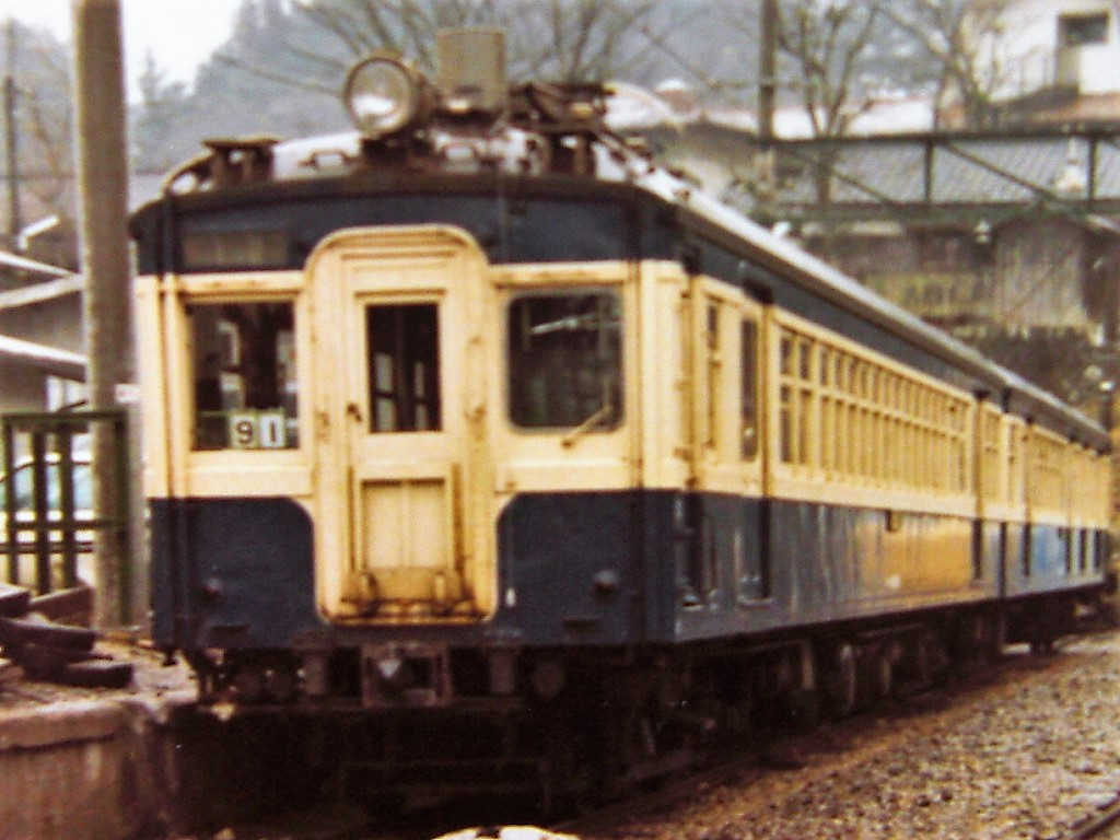 A JNR KuMoHa 53 series EMU on the Iida Line